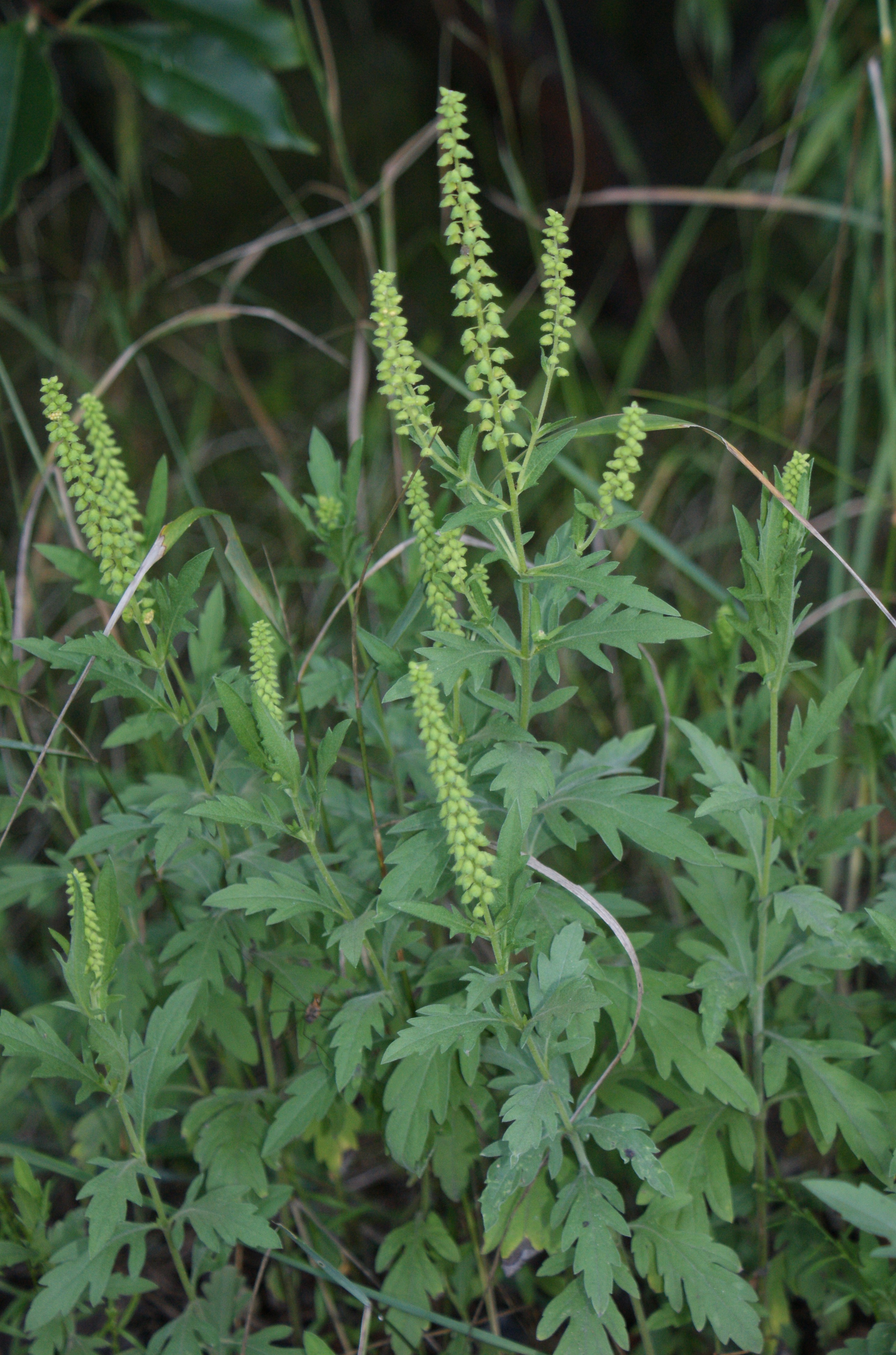 Ambrosia psilostachya, Szczecin Dąbie (Poland)